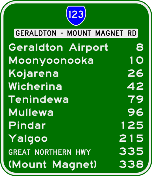 Geraldton Mt Nugent Rd